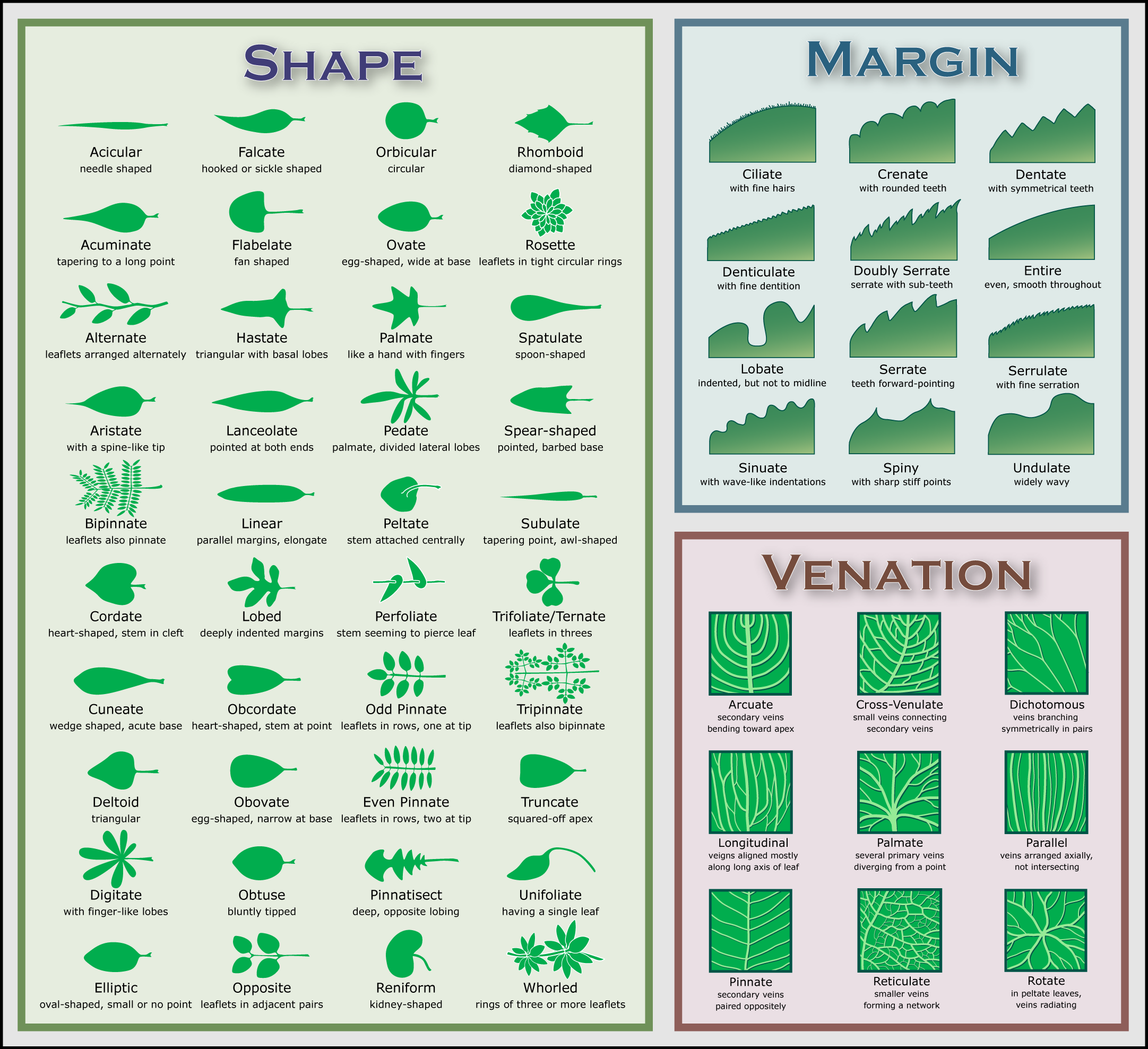 Chart of leaf morphology characteristics. sans title.